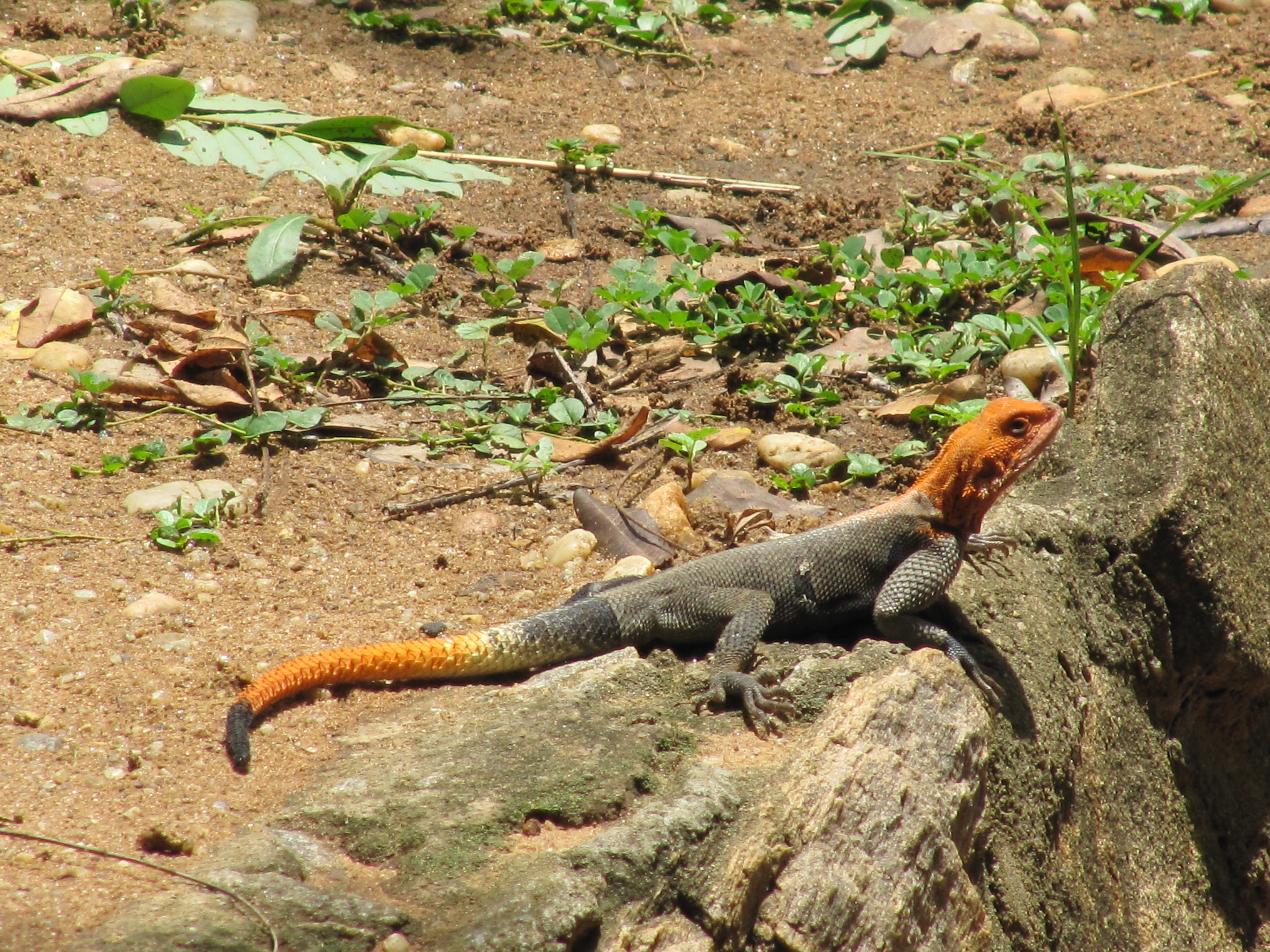 Unidentified lizard, Murchison Falls National Park